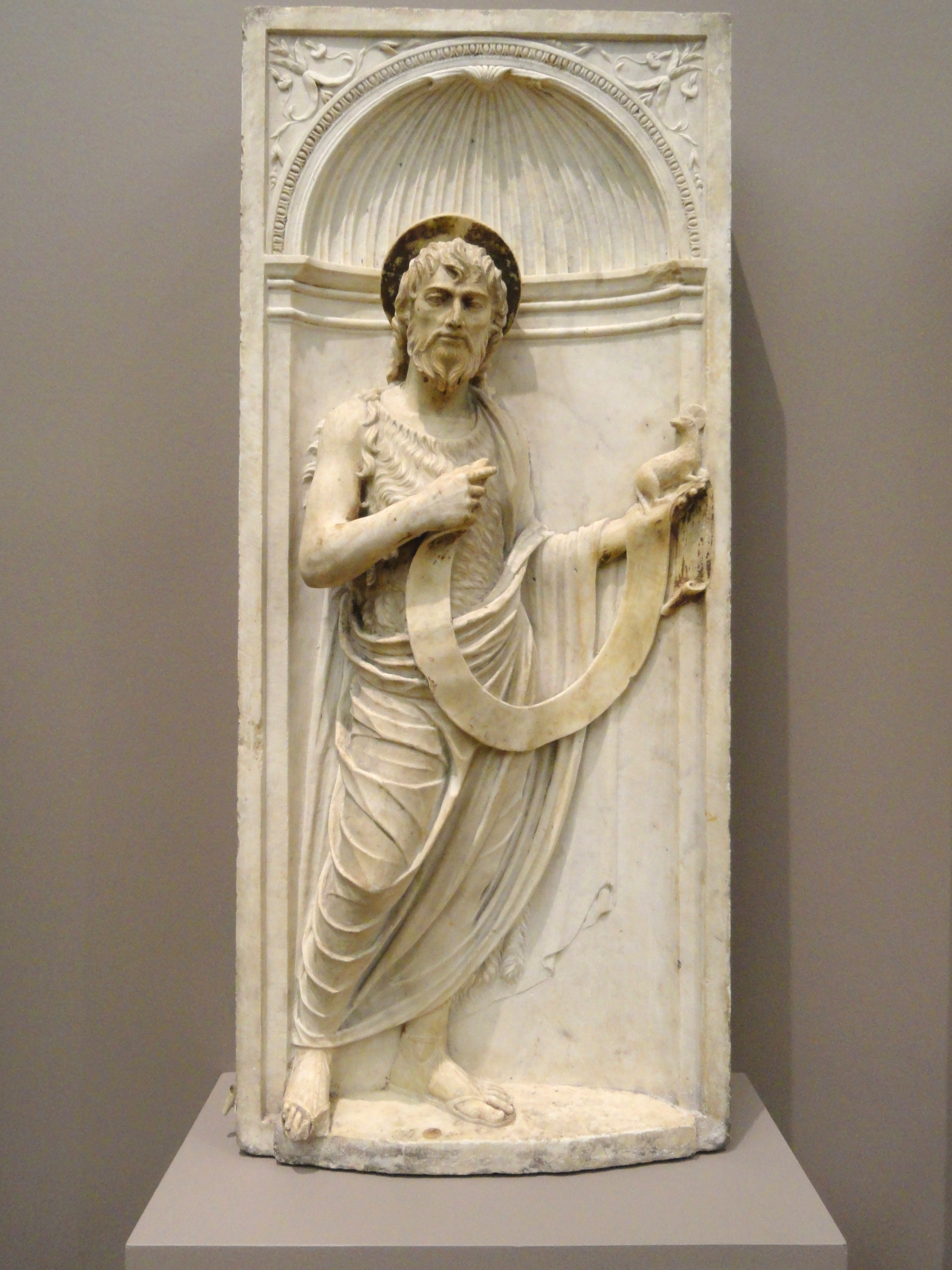 Statens Museum for Kunst, Copenhagen, Denmark. Photography was permitted without restriction of all artworks old enough to be in the public domain. This artwork is in the public domain because its creator died more than 70 years ago.